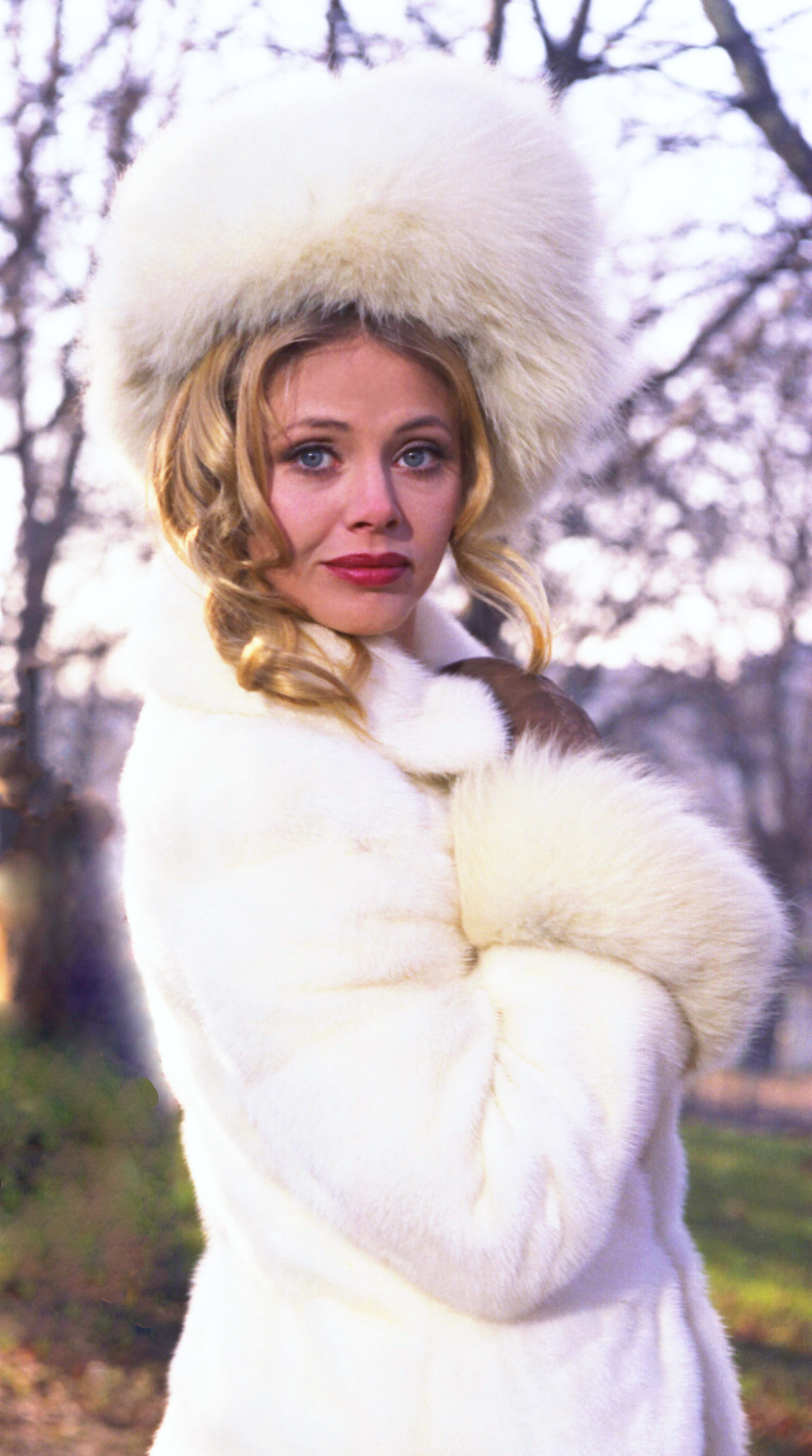 Britt Ekland taken on Hampstead Heath London